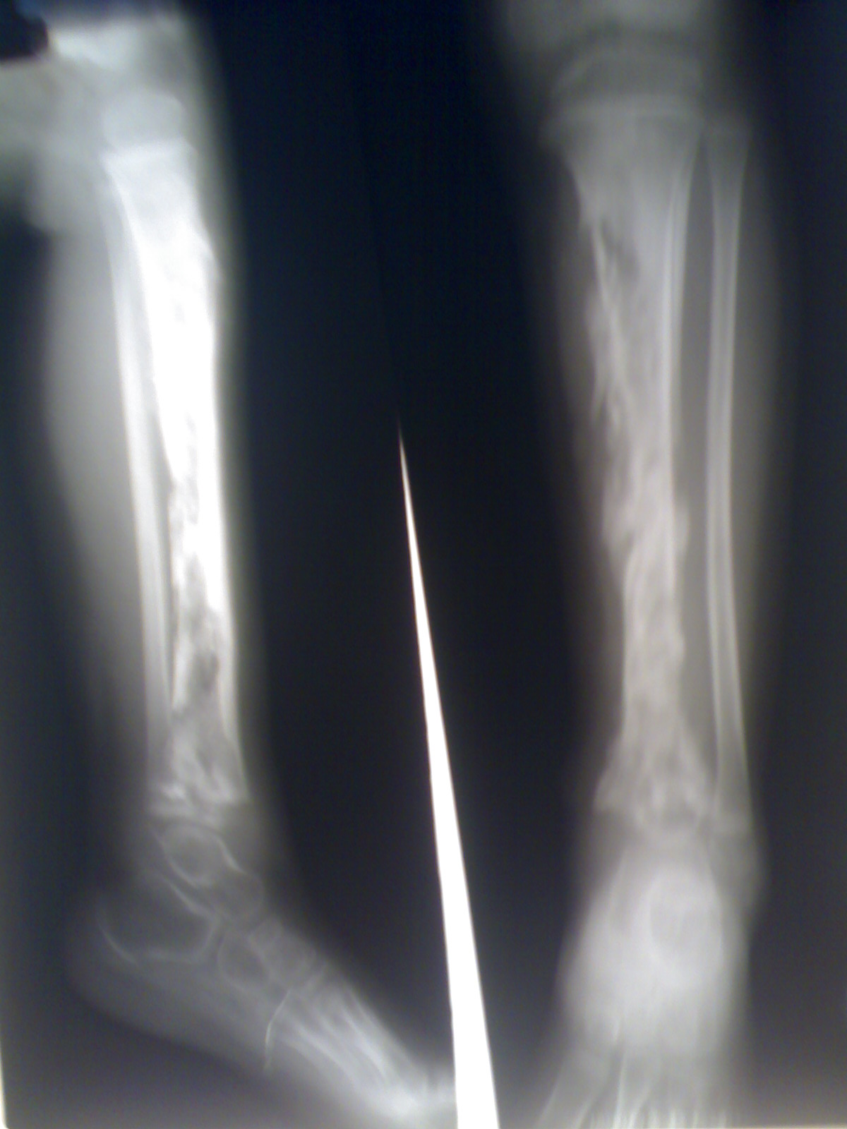 Osteomyelitis of the tibia of a young child showing numerous abscesses in the bone as radiolucency.